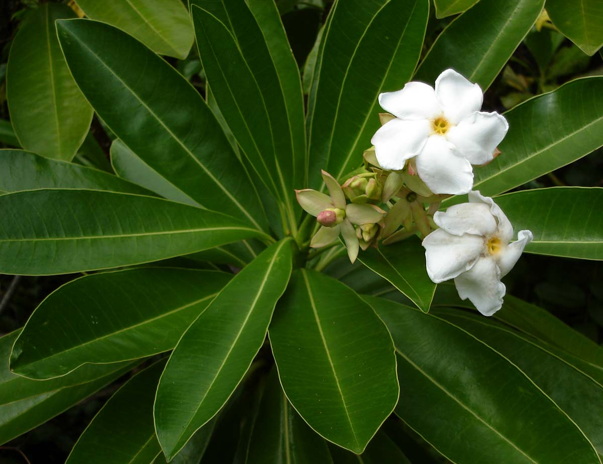 Cerbera odollam, (pong pong tree,sea mango,toto) a common tree along Tongan beaches